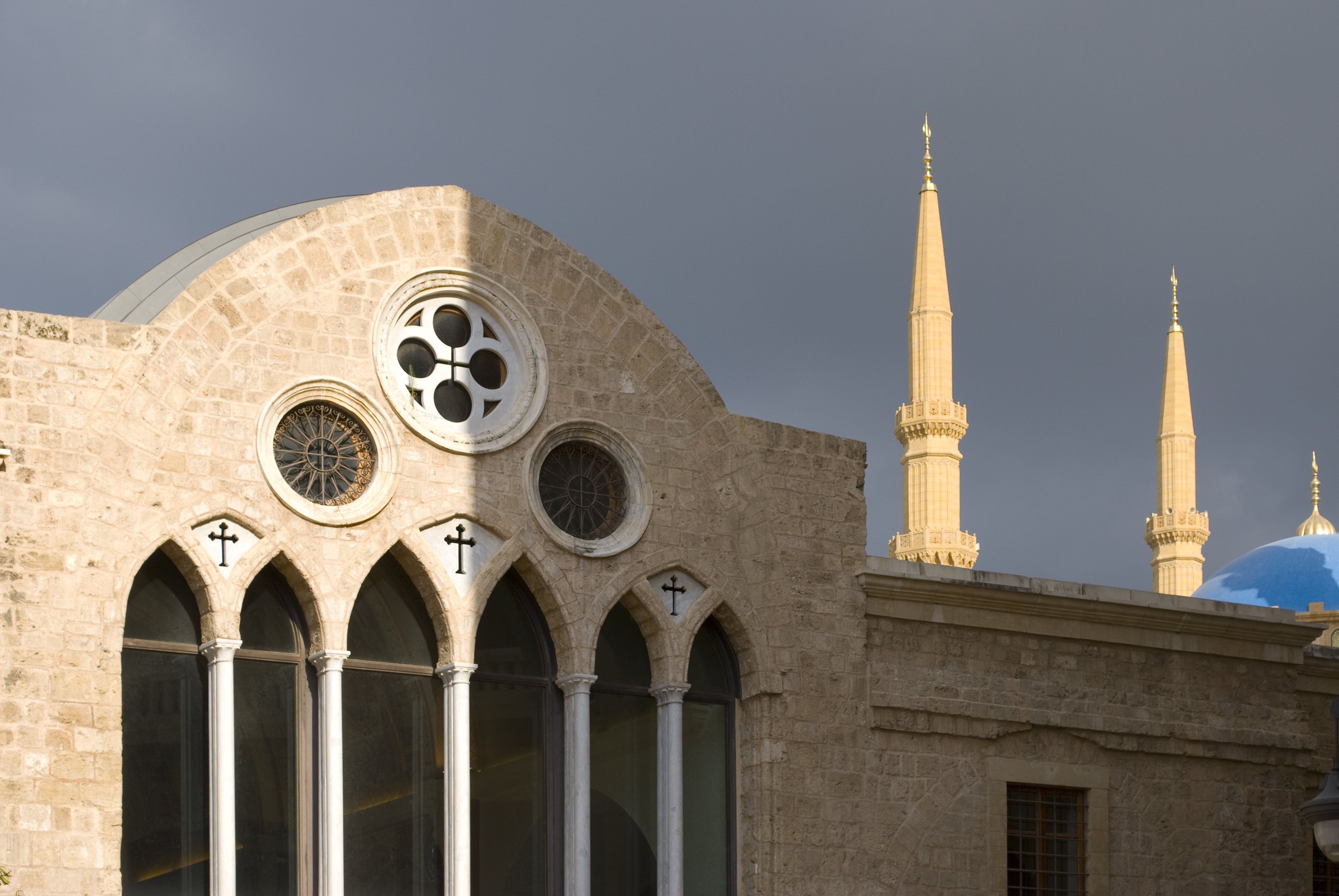 St. George's Greek-Orthodox Cathedral in Downtown Beirut. In the background spires of Mohammad Al-Amin Mosque can be seen.